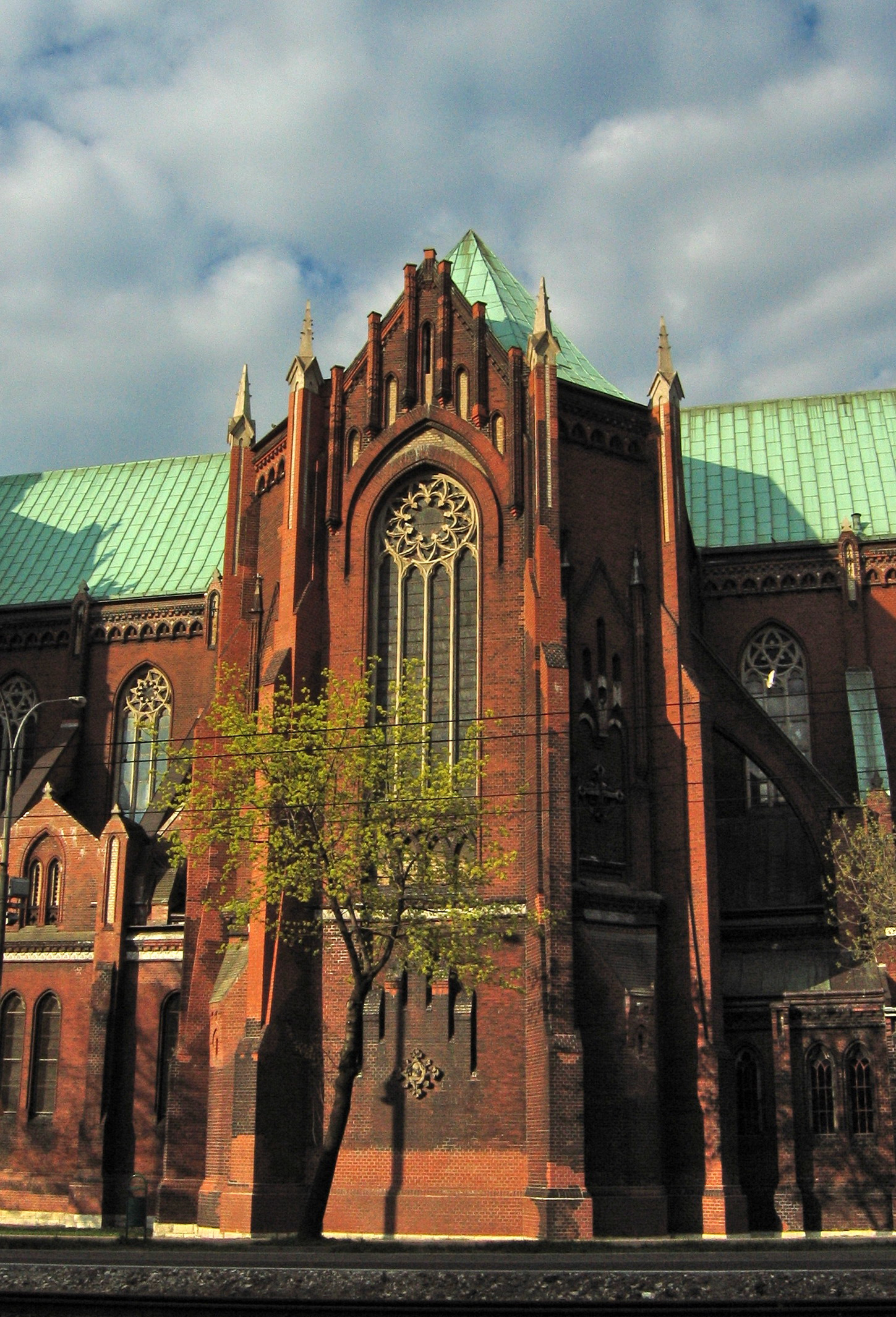 Church of St. Mary in Dąbrowa Górnicza